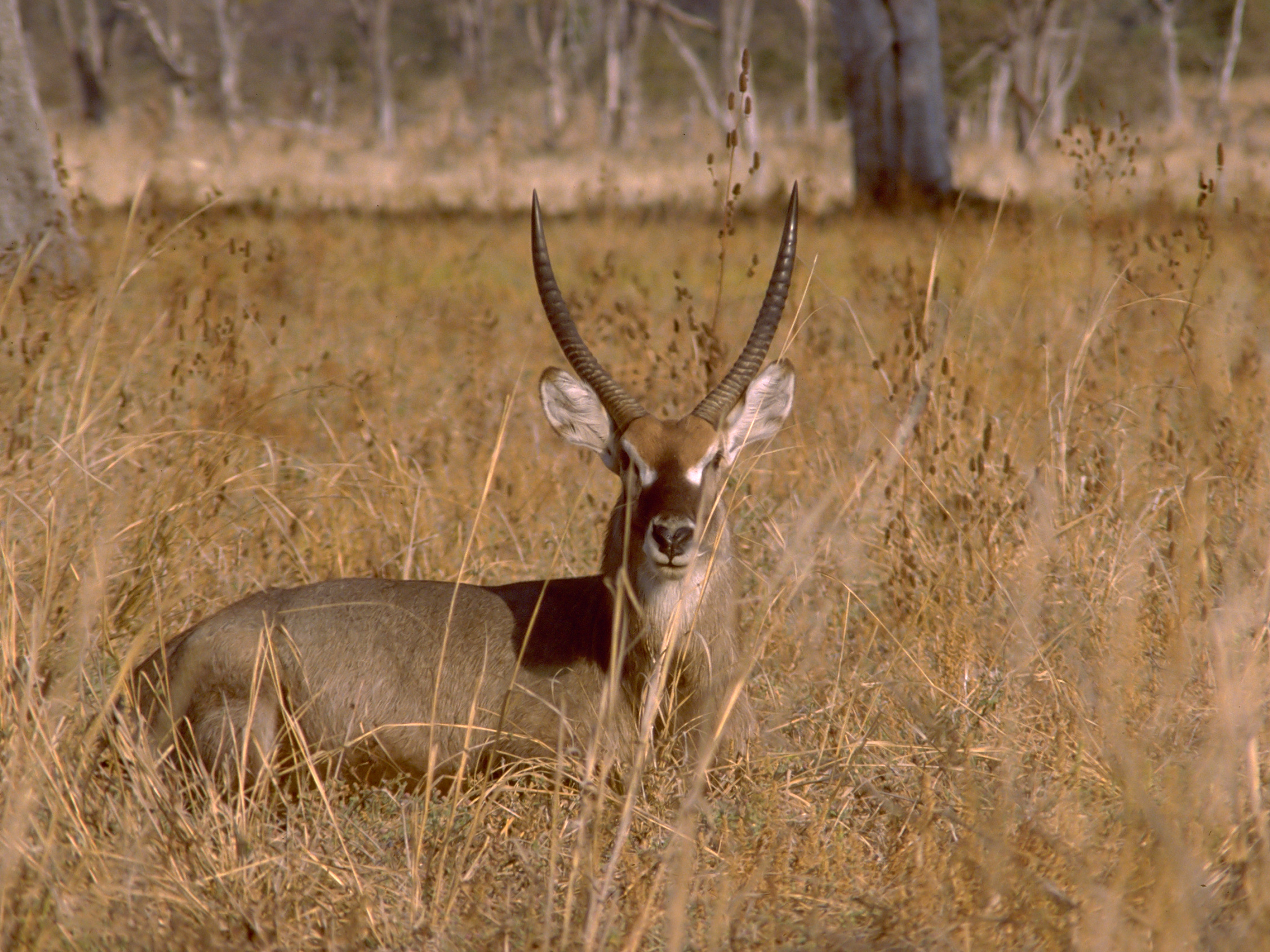 Waterbuck. South Luangwa National Park, Zambia.